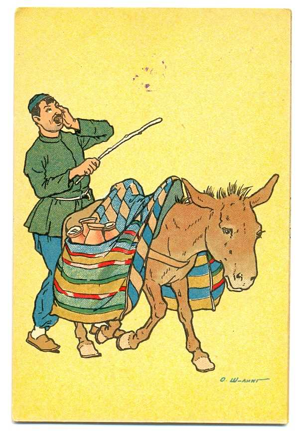 Old Tbilisi by Oskar Shmerling. Russian Caucasus Georgia Tiflis Schmerling PC 1928